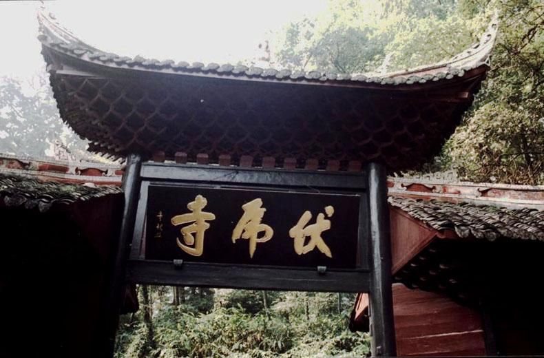 峨眉山伏虎寺 The Crouching Tiger Temple, Emei Mountain